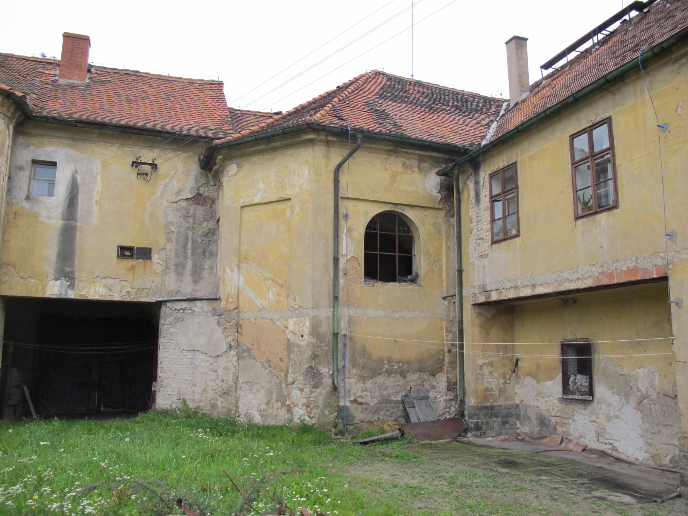 Once Chapel in Líšťany, Czech Republic